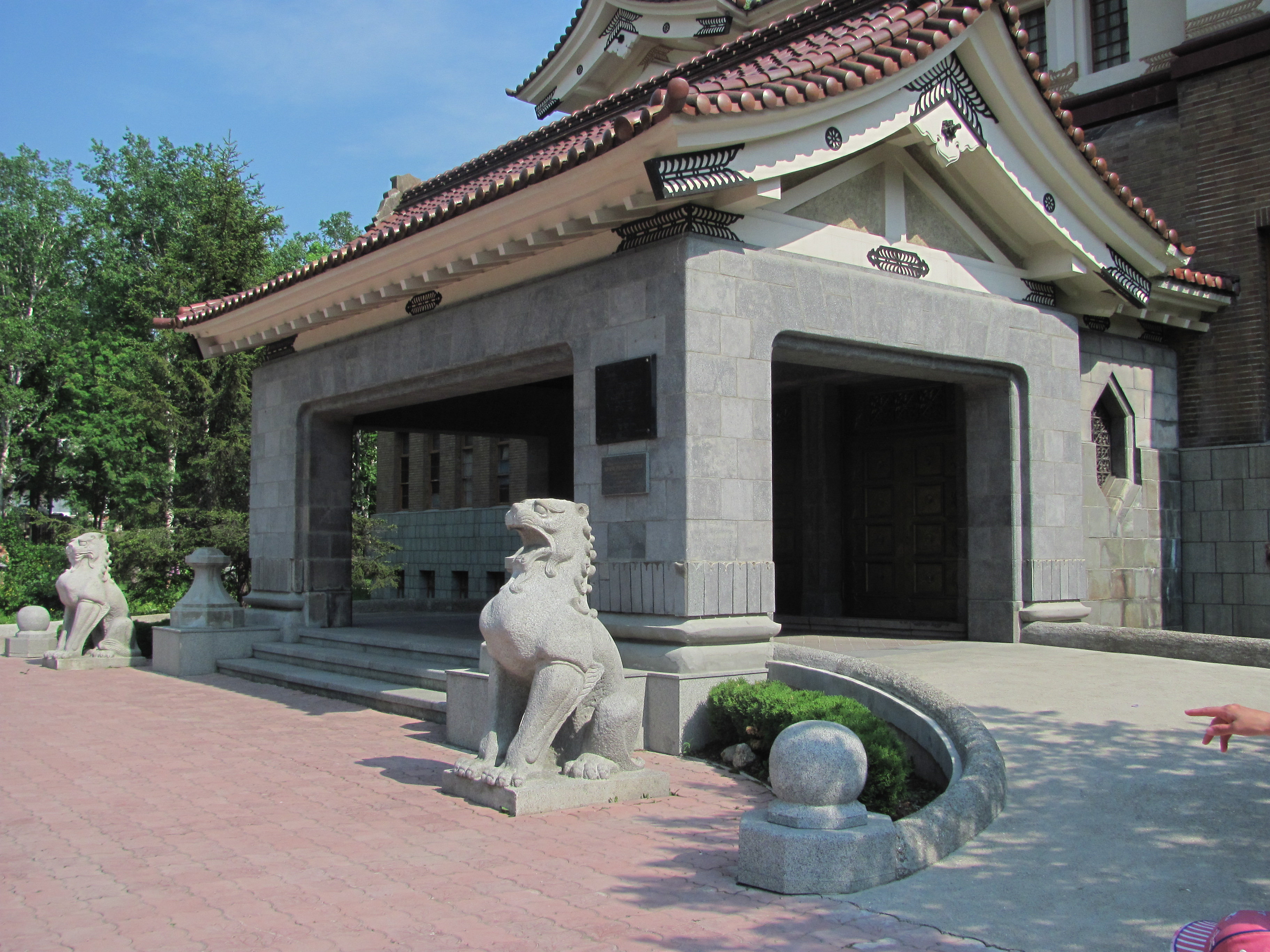 The main local history museum of Sakhalin oblast in the city of Yuzhno-Sakhalinsk, Sakhalin Island, Russia. Main entrance.